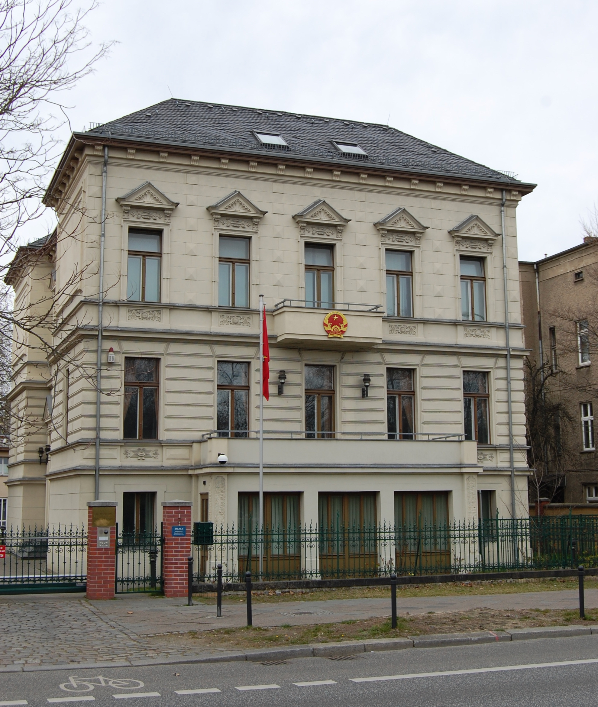 Embassy of Vietnam in Berlin